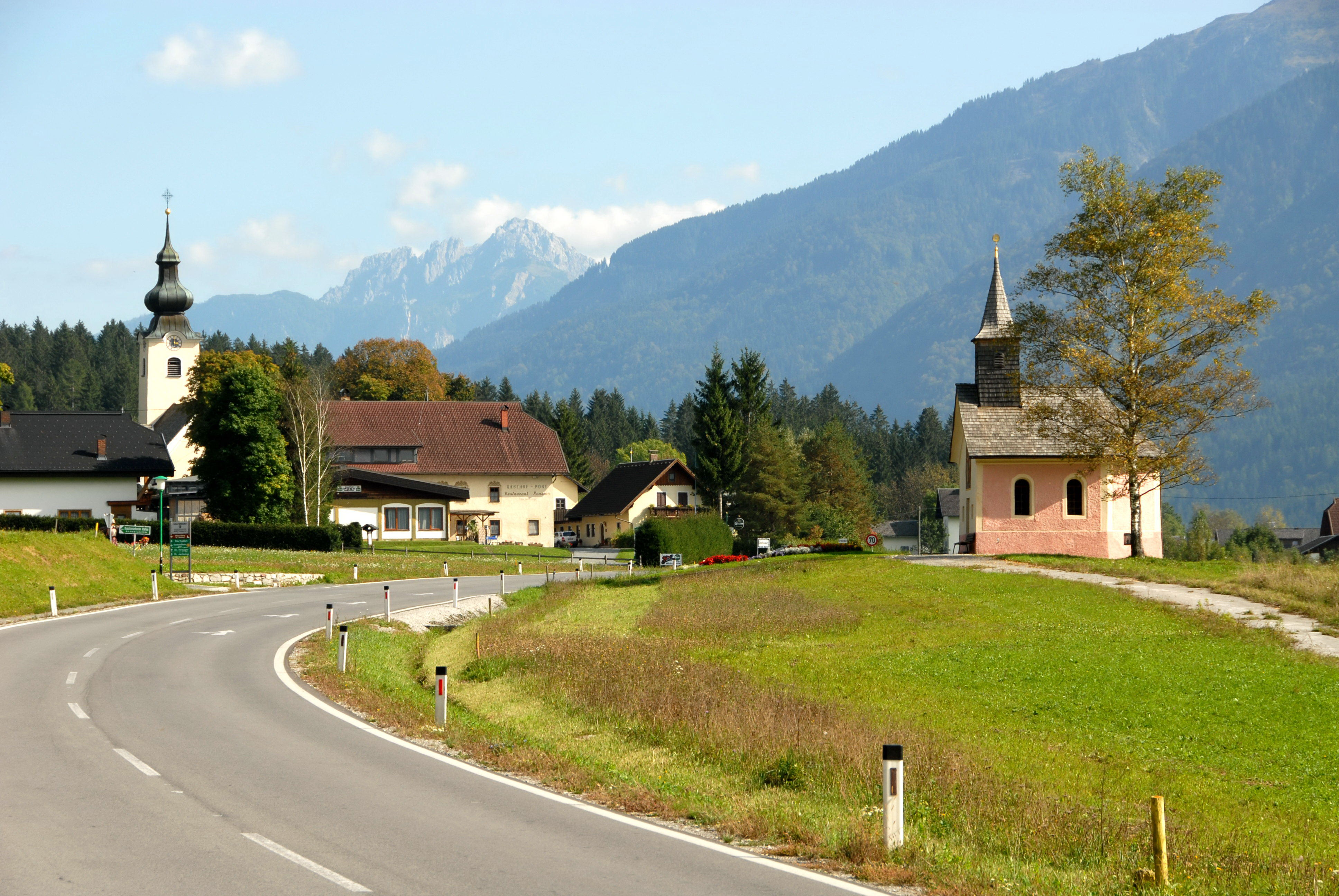 Grafendorf in the community Kirchbach, Carinthia, Austria